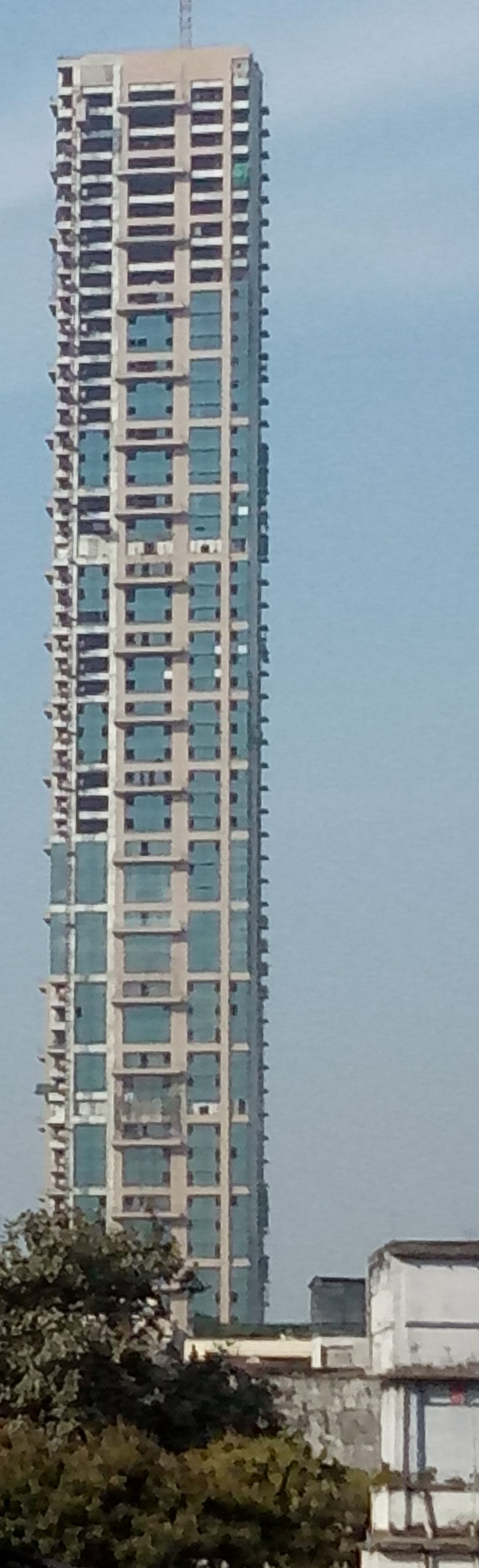 The 42 which is the tallest building in Kolkata as seen from the Acharya Jagadish Chandra Bose flyover. This image is a cropped version of a similar image File:The 42 (Kolkata) seen from a distance.jpg